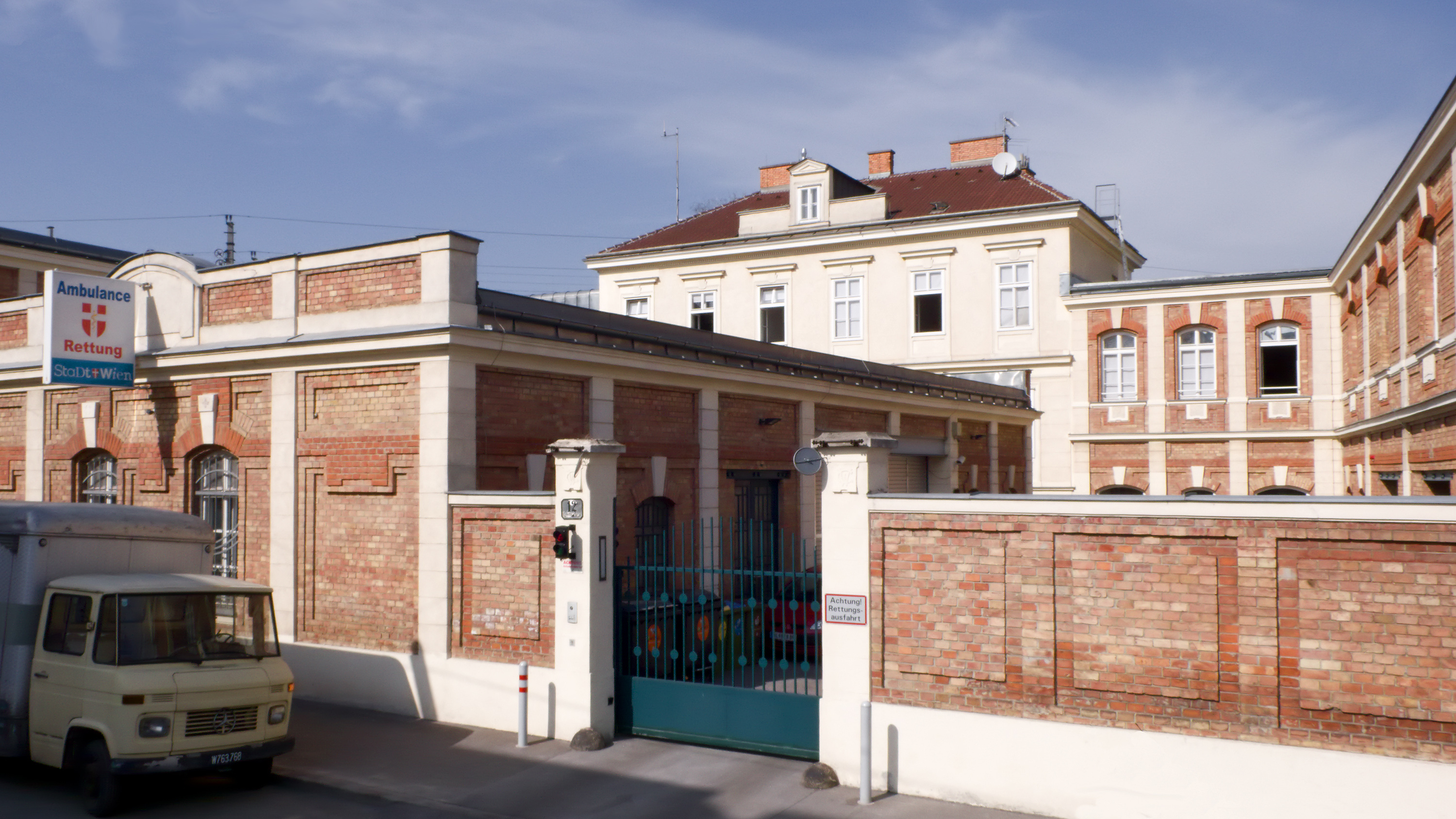 Rettungsstation Hernals in Vienna Hernals